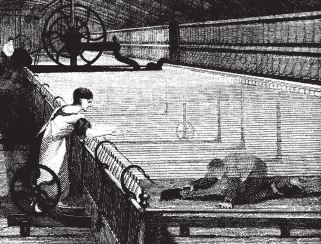 Cropped version of File:Baines 1835-Mule spinning.png to focus on the mule scavenger brushing away under the spinner